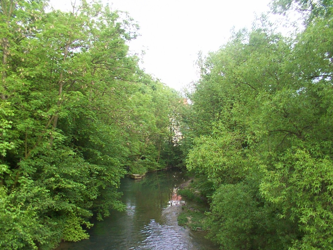 The river Altenau downriver of Kirchborchen.